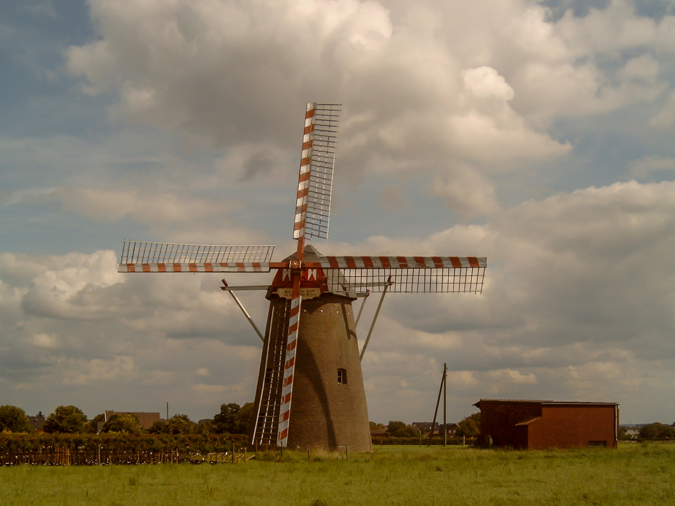 Waldfeucht, windmill